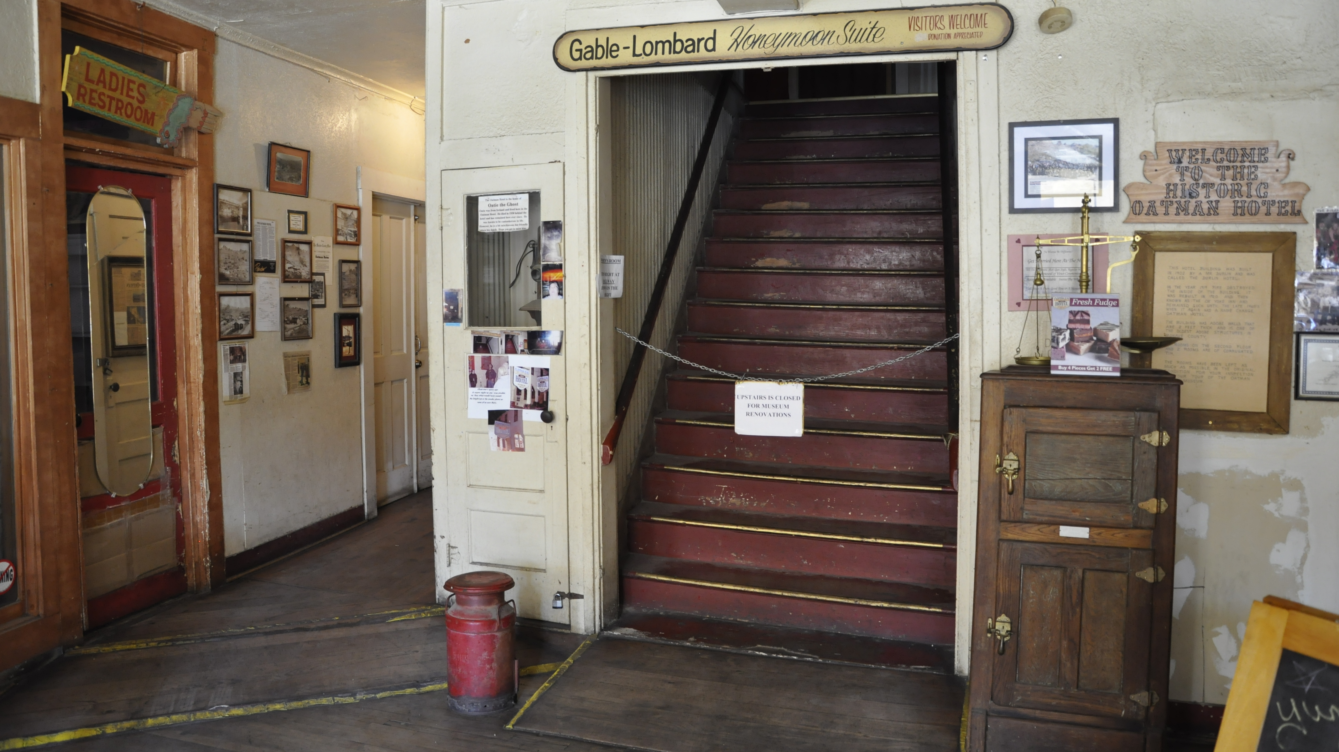 The honeymoonsuite of Clark Gable en Carole Lombard at the Oatman hotel, Oatman, Arizona